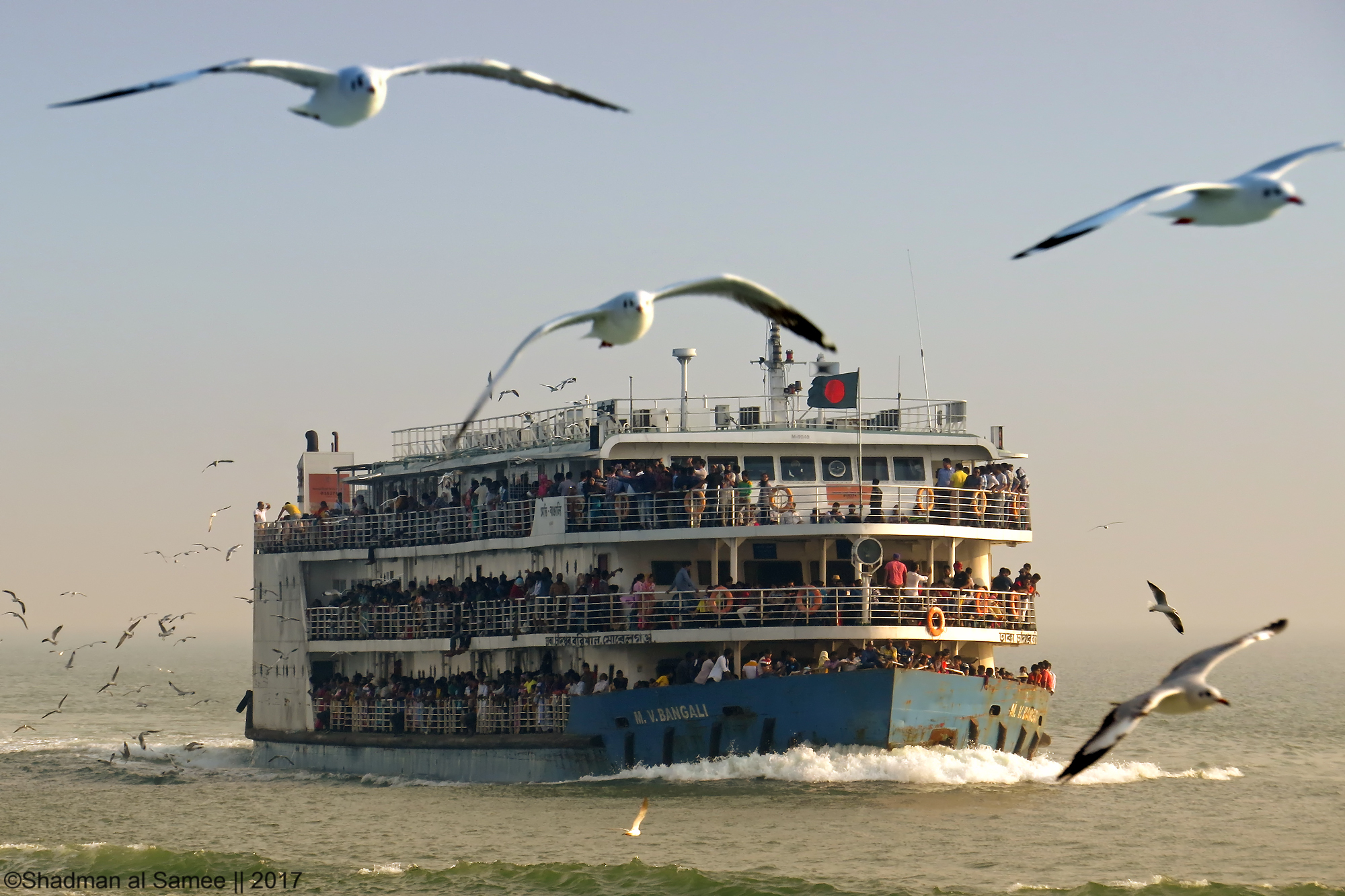 Naf river 2017: Shot while falling back from the St-Martin's. Very impressive sight, this one is! Also note the large number of seagulls which follows the ships.